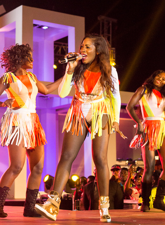 Tiwa performing at GTBank's Biggest Baddest in December 2014.